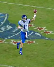 Kellen Moore during a game against Virginia Tech on September 06, 2010